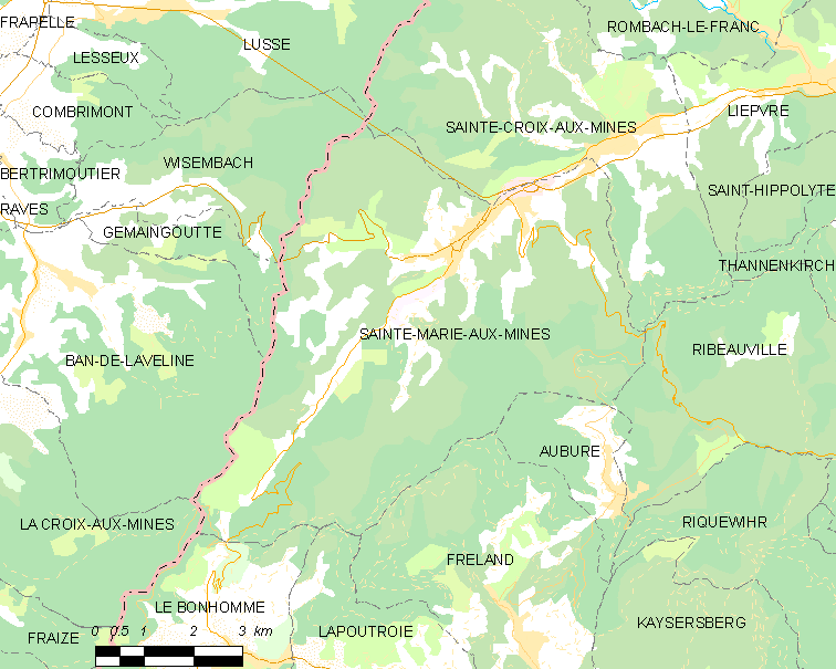 Map of French municipality